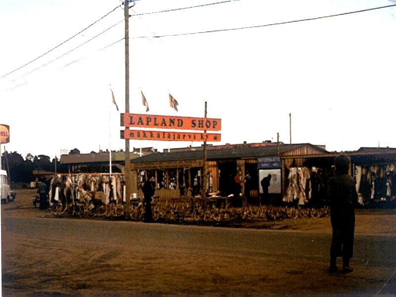 Lapland Shop Näkkäläjärvi Ky in Inari, Finland.